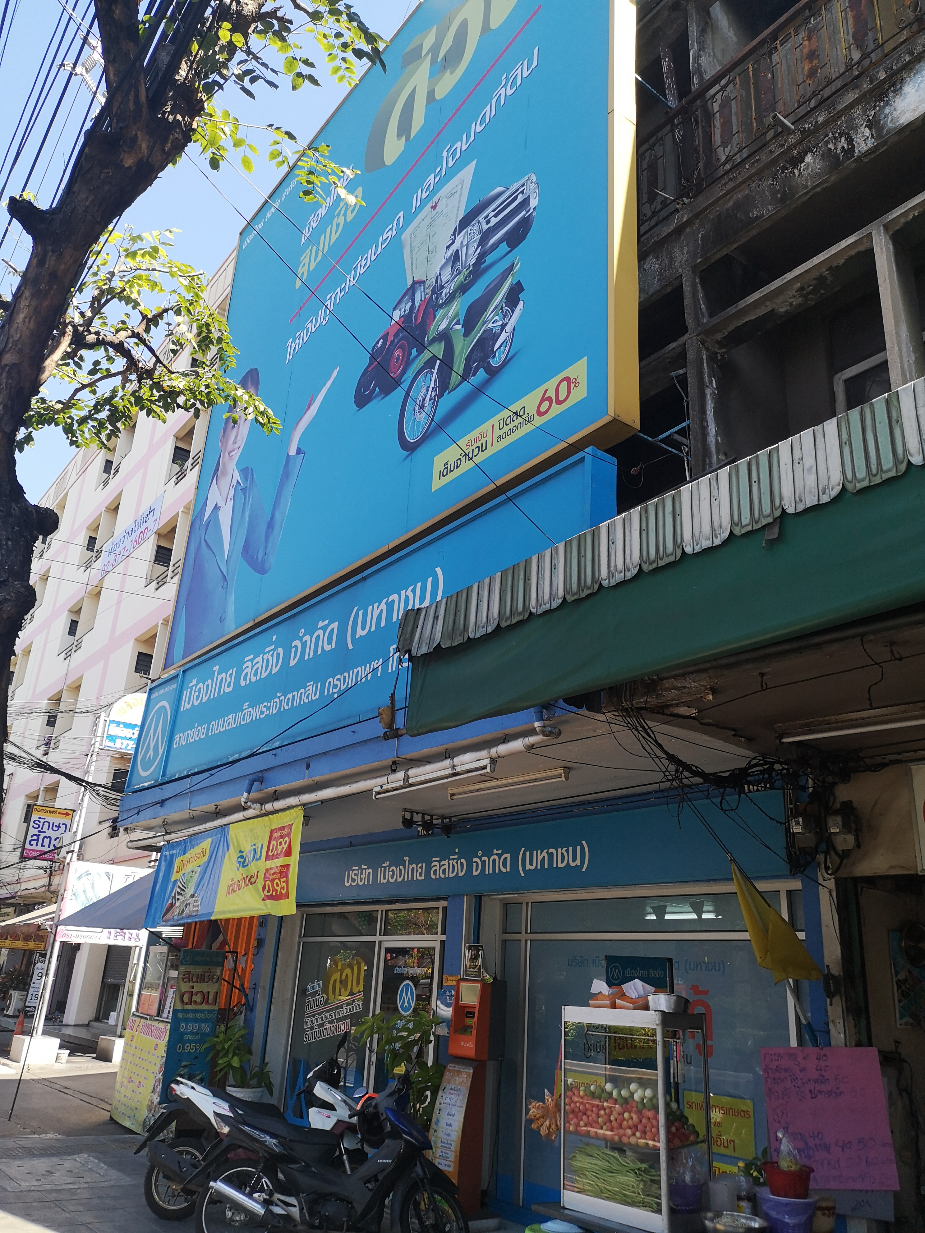 A branch of Muangthai Capital at Thanon Somdet Phra Chao Tak Sin.